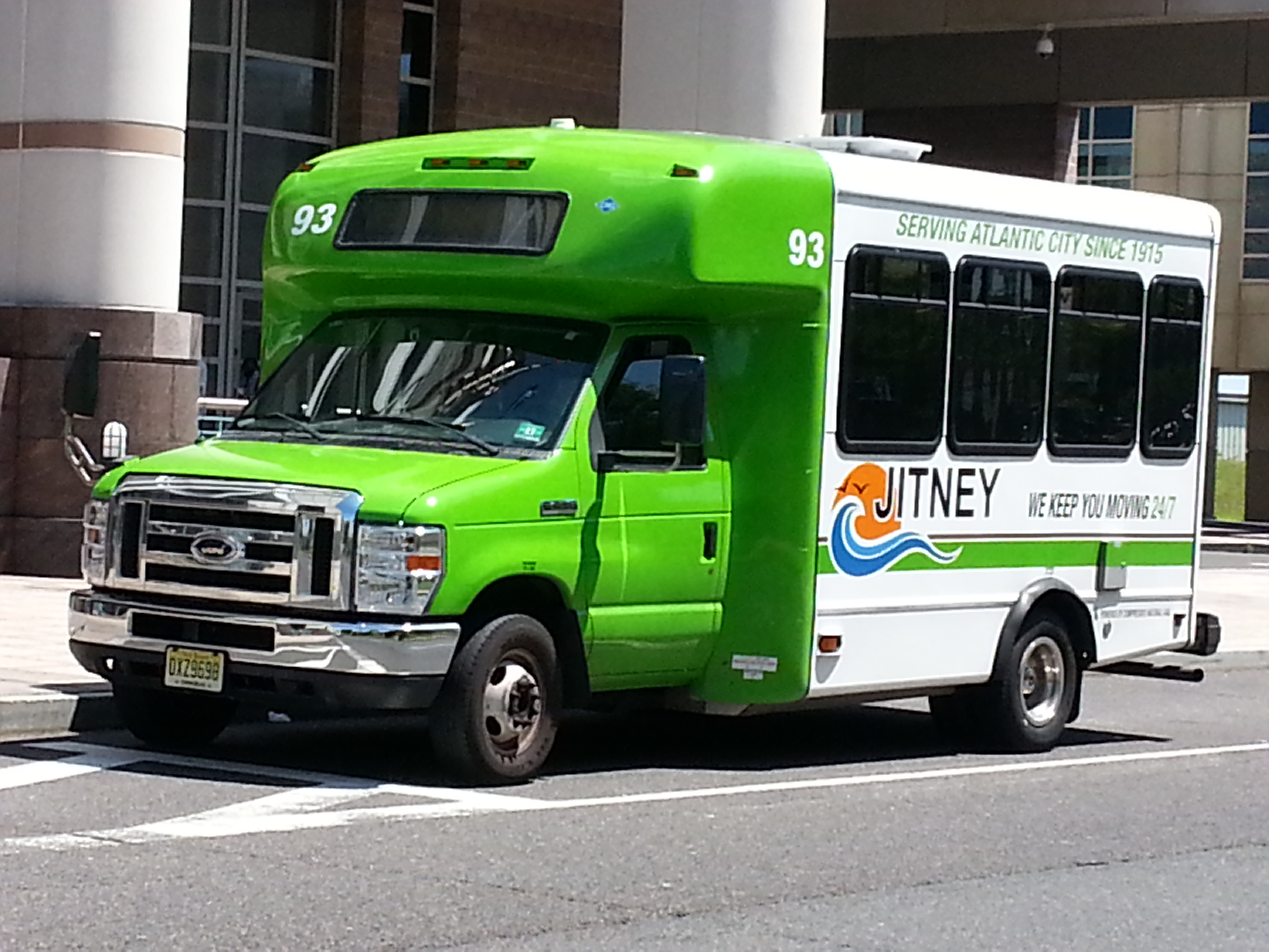 Atlantic City, NJ, USA "Jitney" public shuttle bus. Ford E-450 powered by compressed natural gas. First used in 2010 Ford E-Series